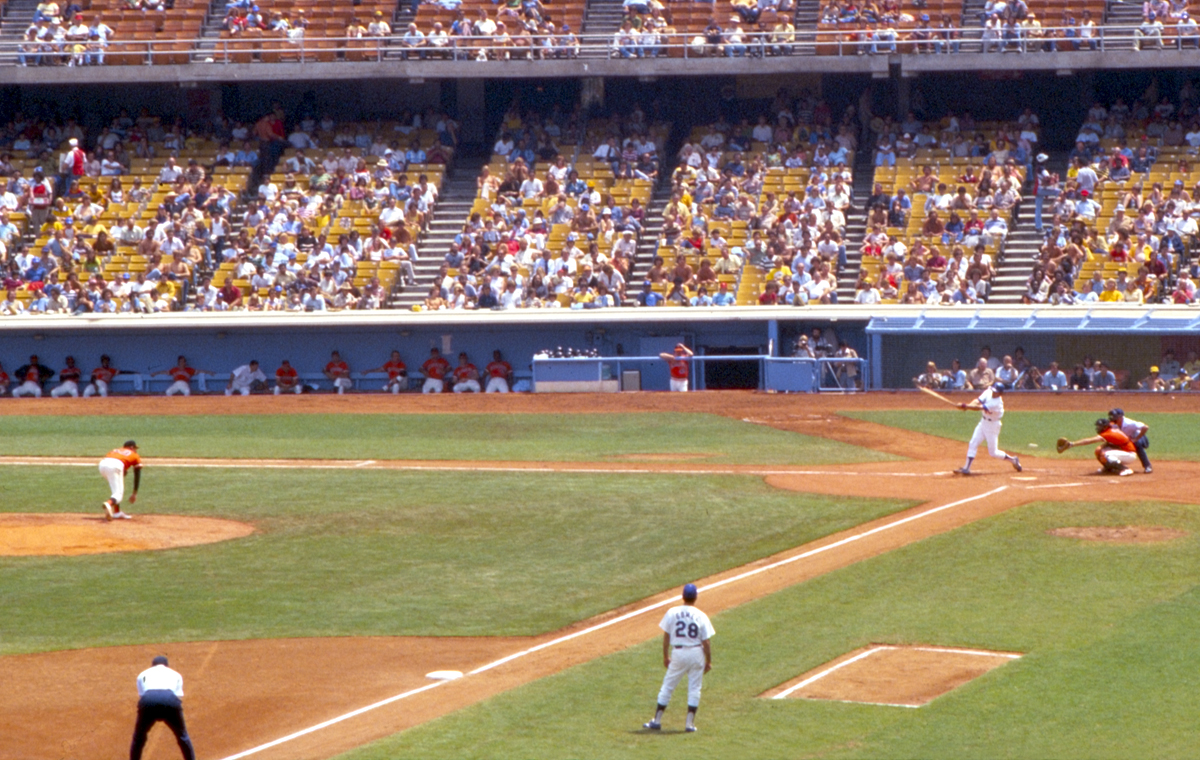 Bottom of 2nd inning-SF Giants' pitcher Jim Barr throws a third strike-out to LA Dodgers' Rick Monday. At Los Angeles Dodgers Stadium, August 18, 1977. Dodgers won 7-0 (Scanned from 35mm Ektachrome ED 200 slide)